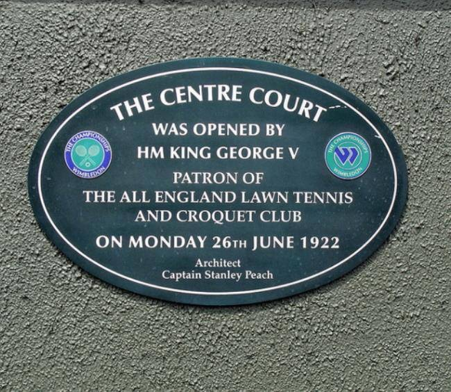 Wimbledon plaque